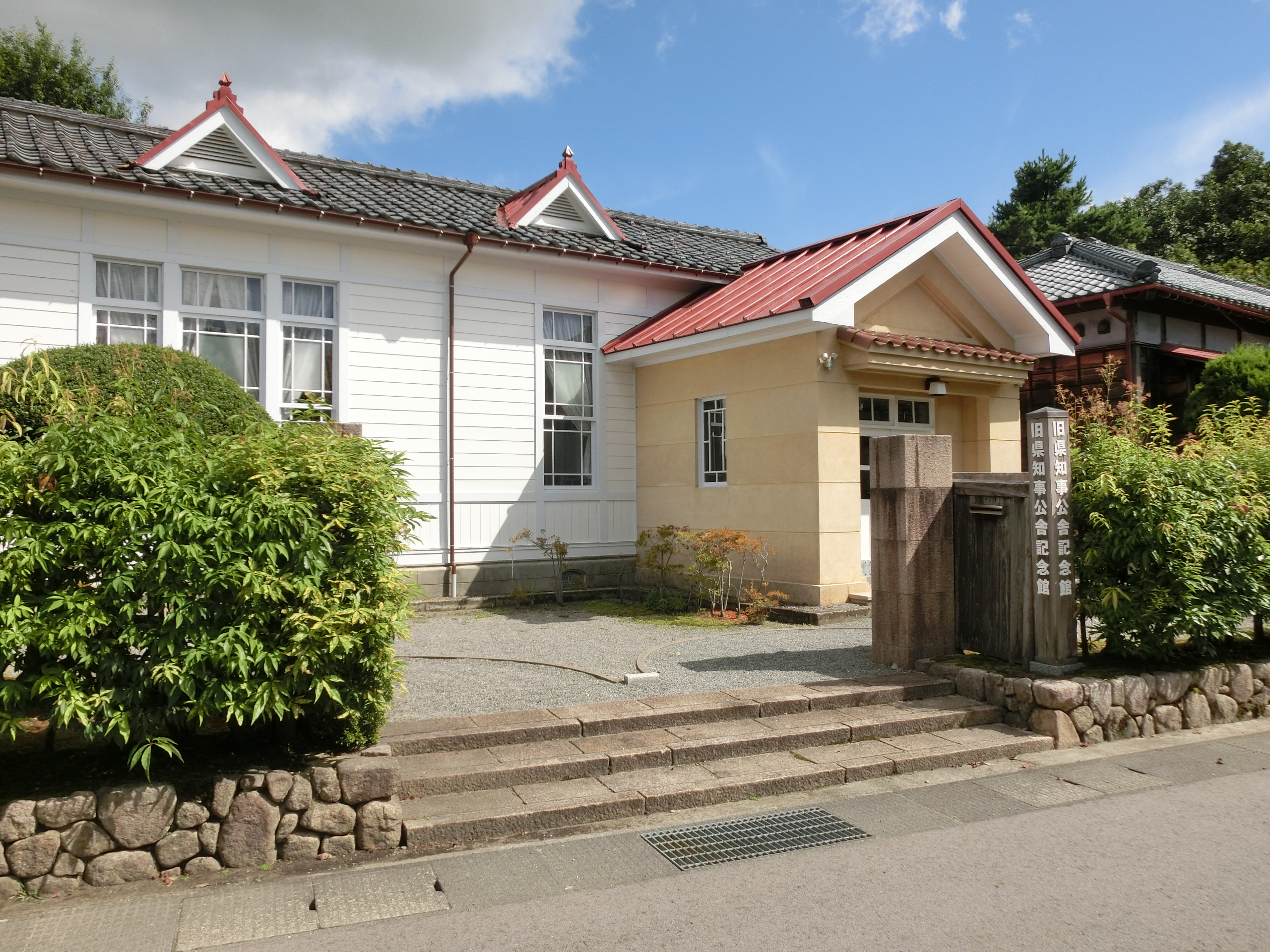 Former Residence of the Governor of Niigata